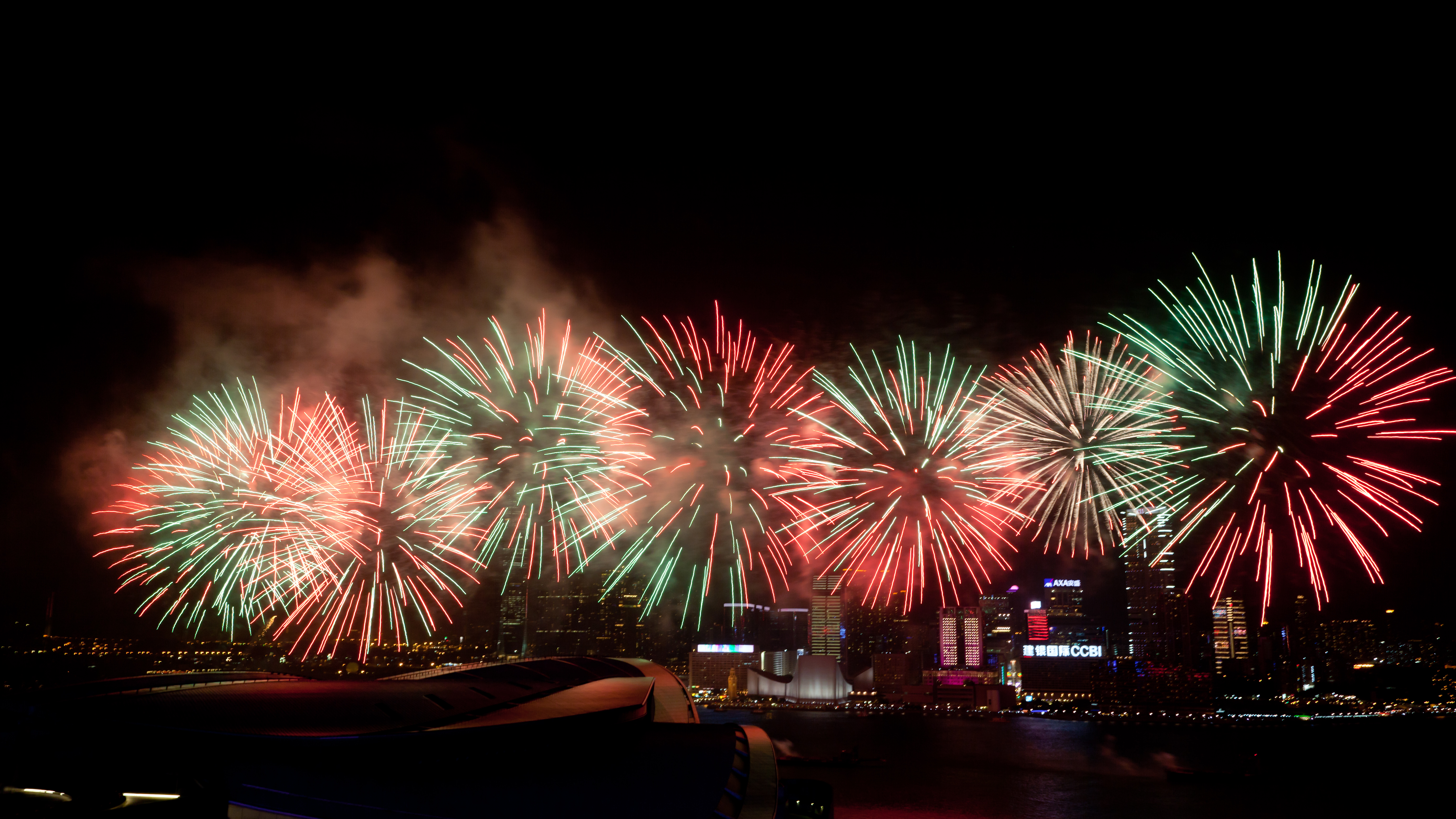 Fireworks show in Hong Kong during Chinese New Year.